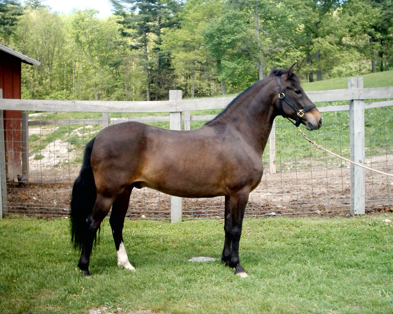 Vesuvio Bien Vee - Paso Fino Bellas Formas National Champion 3 Year Old Gelding in 2001. This gelding exhibits a good breed standard of conformation, type and overall form. My own work. Photo taken in May of 2006 at Hoot Owl Farm. Author is Soltera.